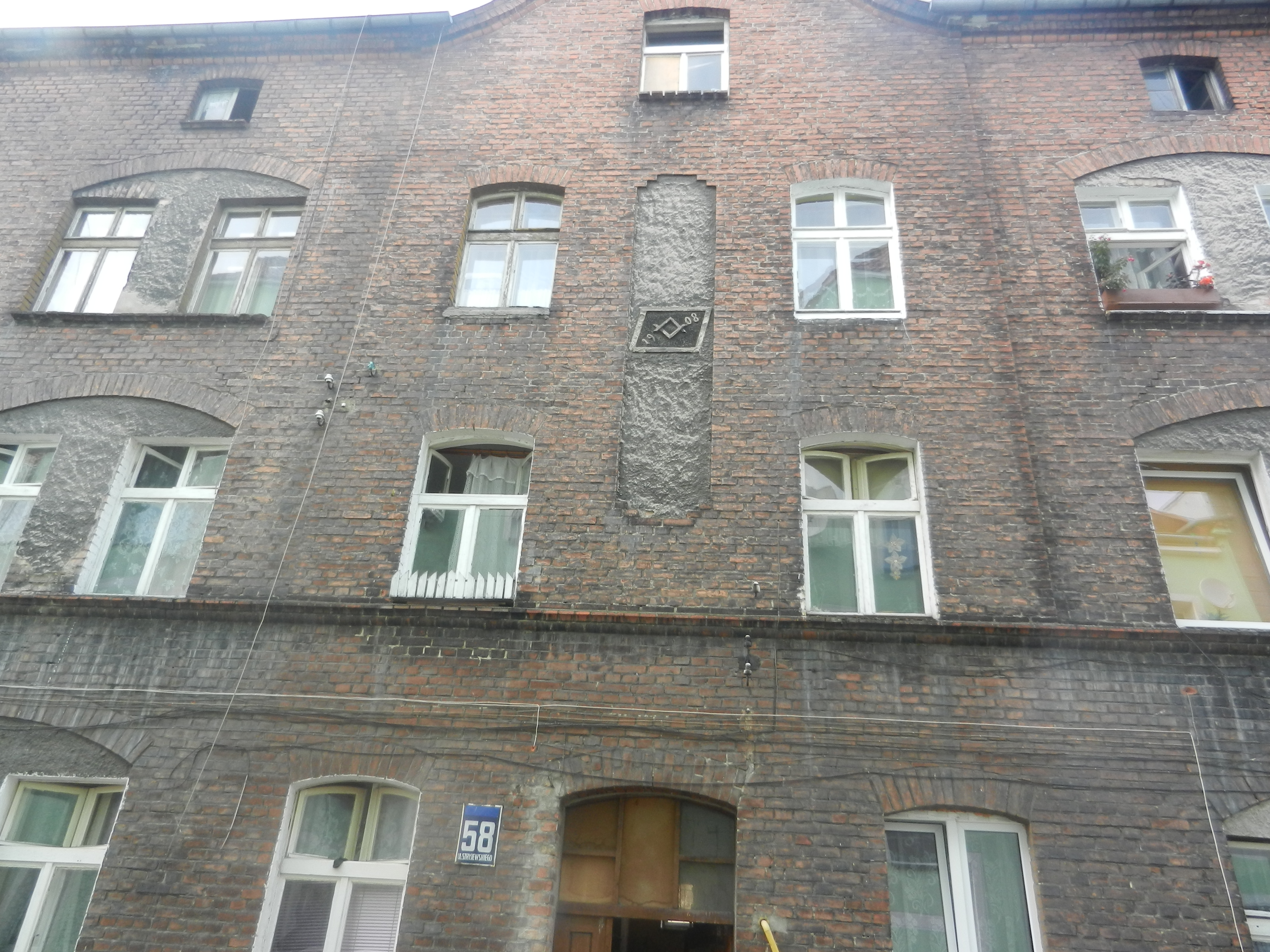 One of the premises of the former Masonic lodge in Lębork